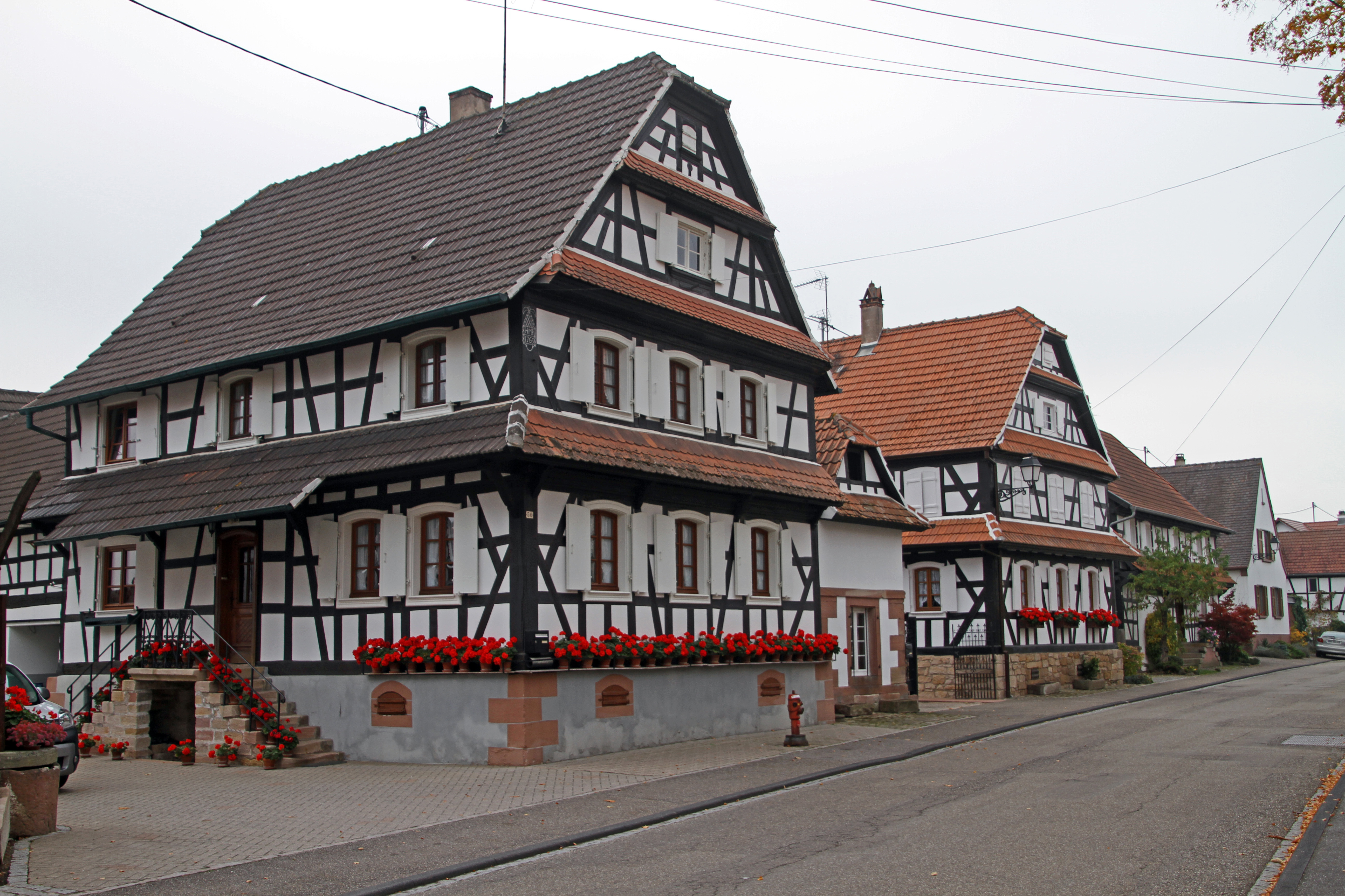 Hunspach, Main street